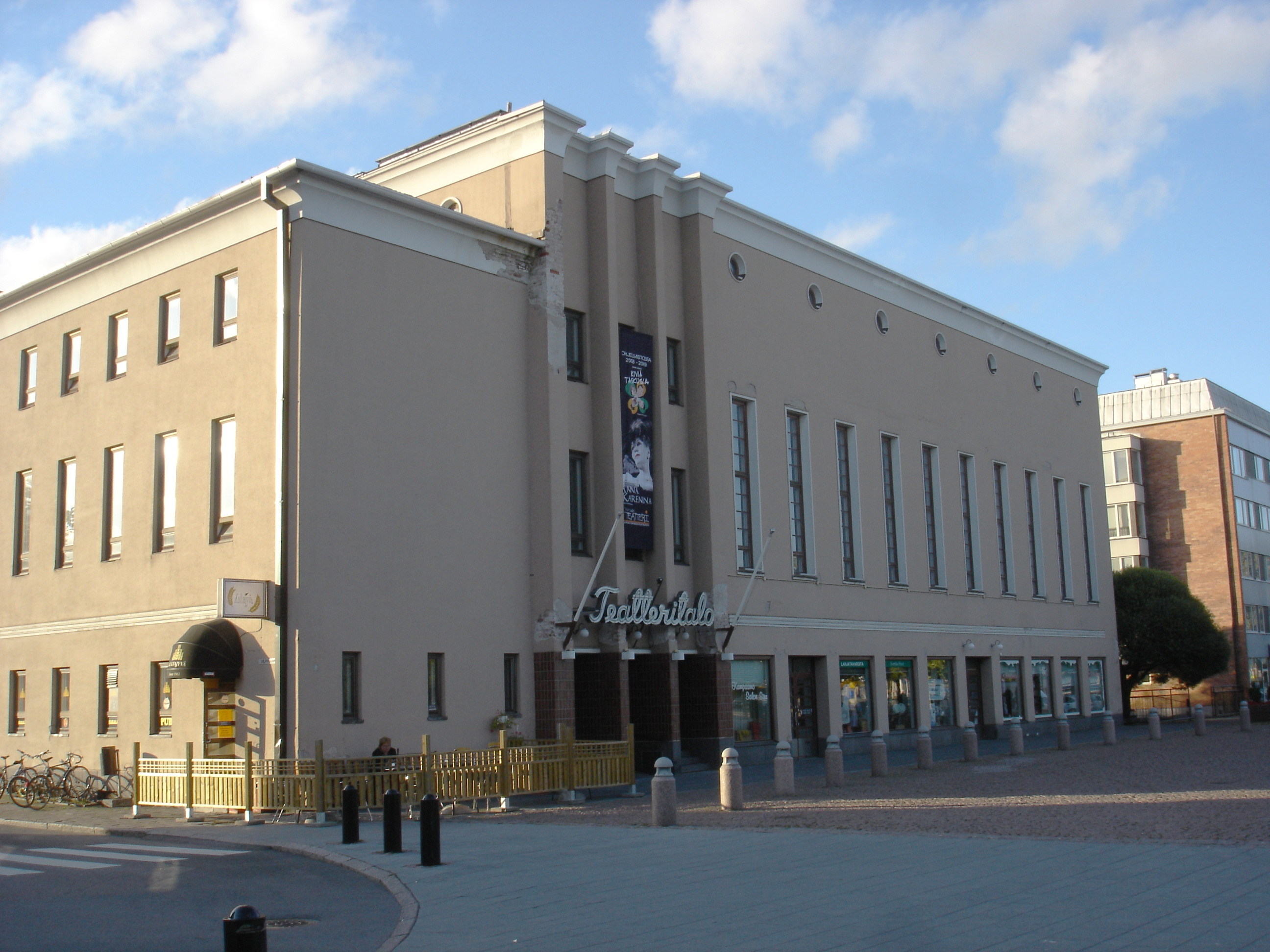 Forssa Theater in Forssa, Finland.